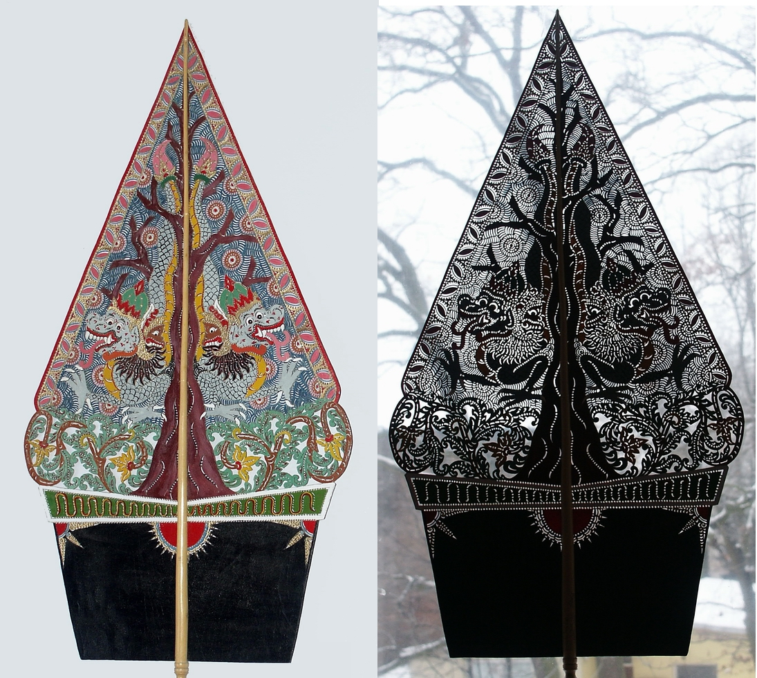 Gunungan, wayang kulit figure from the wayang shadow play Wayang Sasak